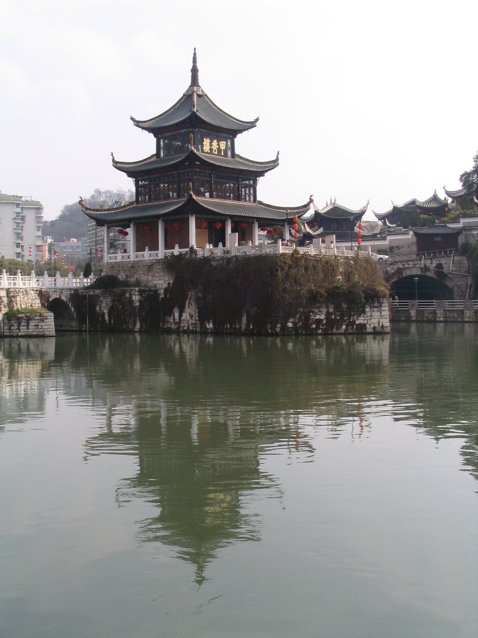 The Ming-dynasty Jiaxiu Pavilion in Guiyang's Nanming River.